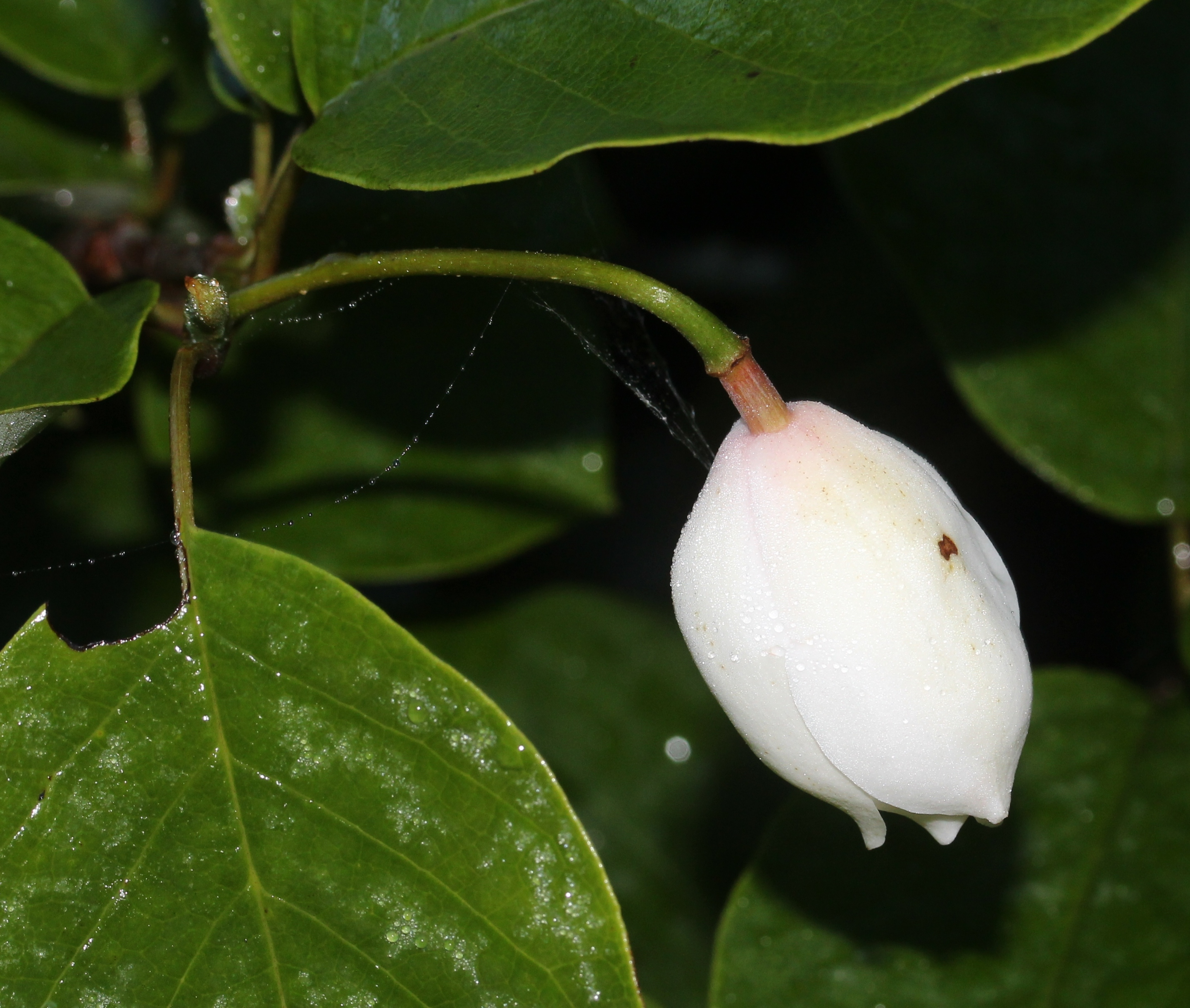 Magnolia sieboldii subsp. japonica in Mount Nakazahi of Hida Mountains, Takayama, Gifu prefecture, Japan.